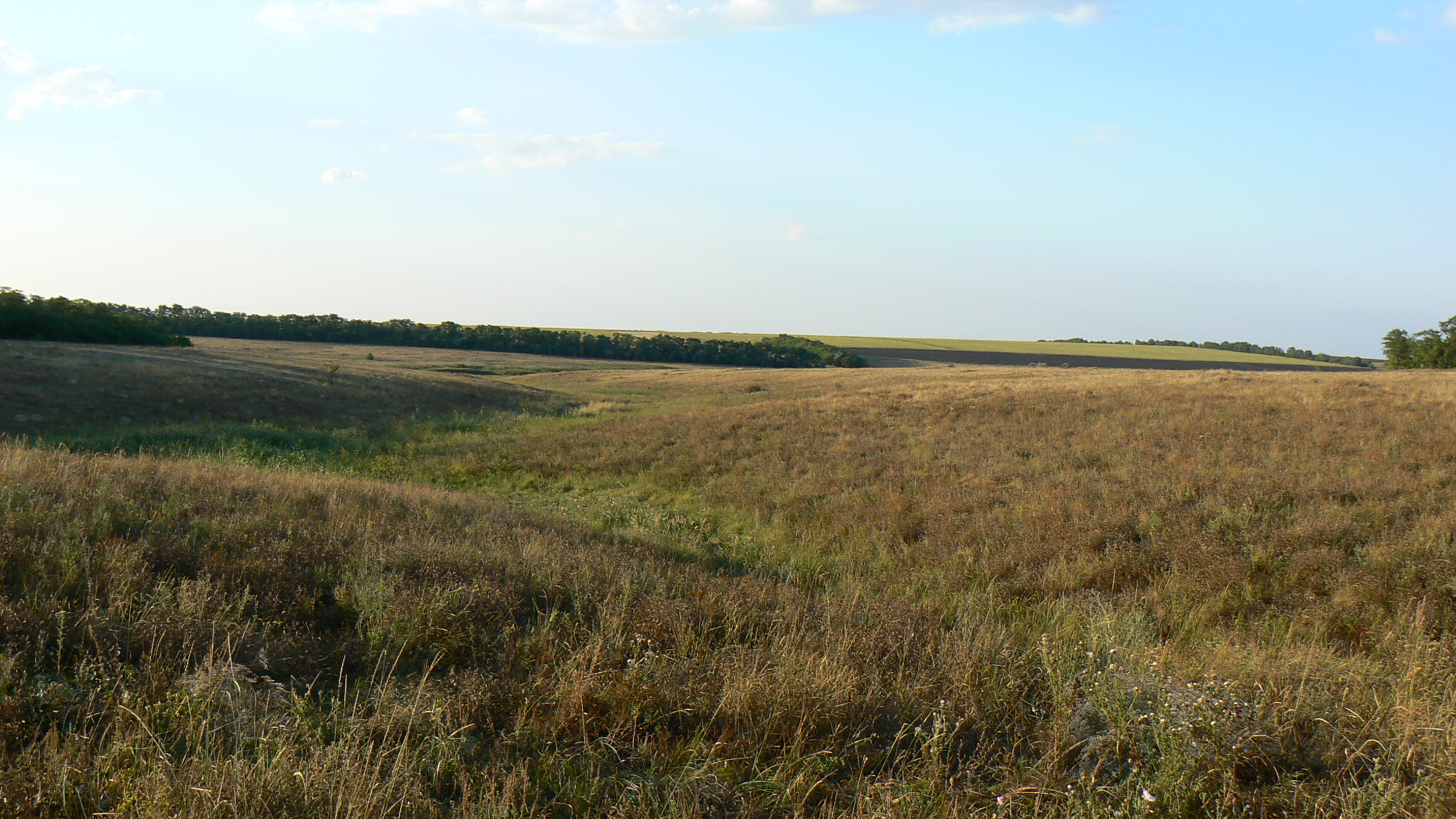 Balka Orlinskaya